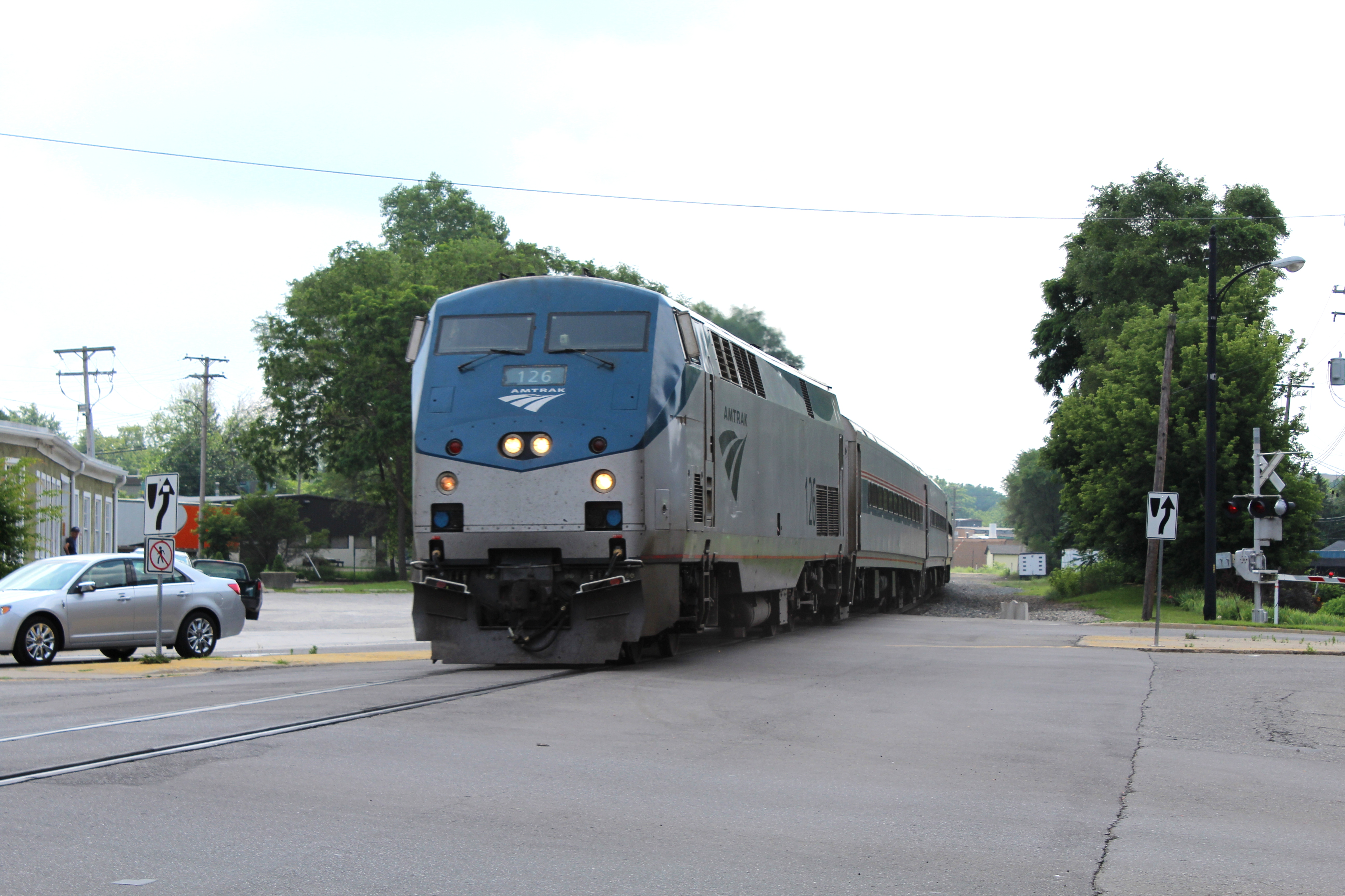 Amtrak 126, Worlverine Service heading west in Depot Town, Ypsilanti, Michigan.